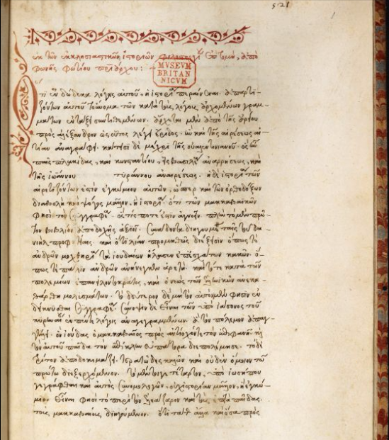 Epitome by Photius, Patriarch of Constantinople, of the Historia Ecclesiastica of Philostorgius. British Library. Manuscripts 1st half of the 16th century.